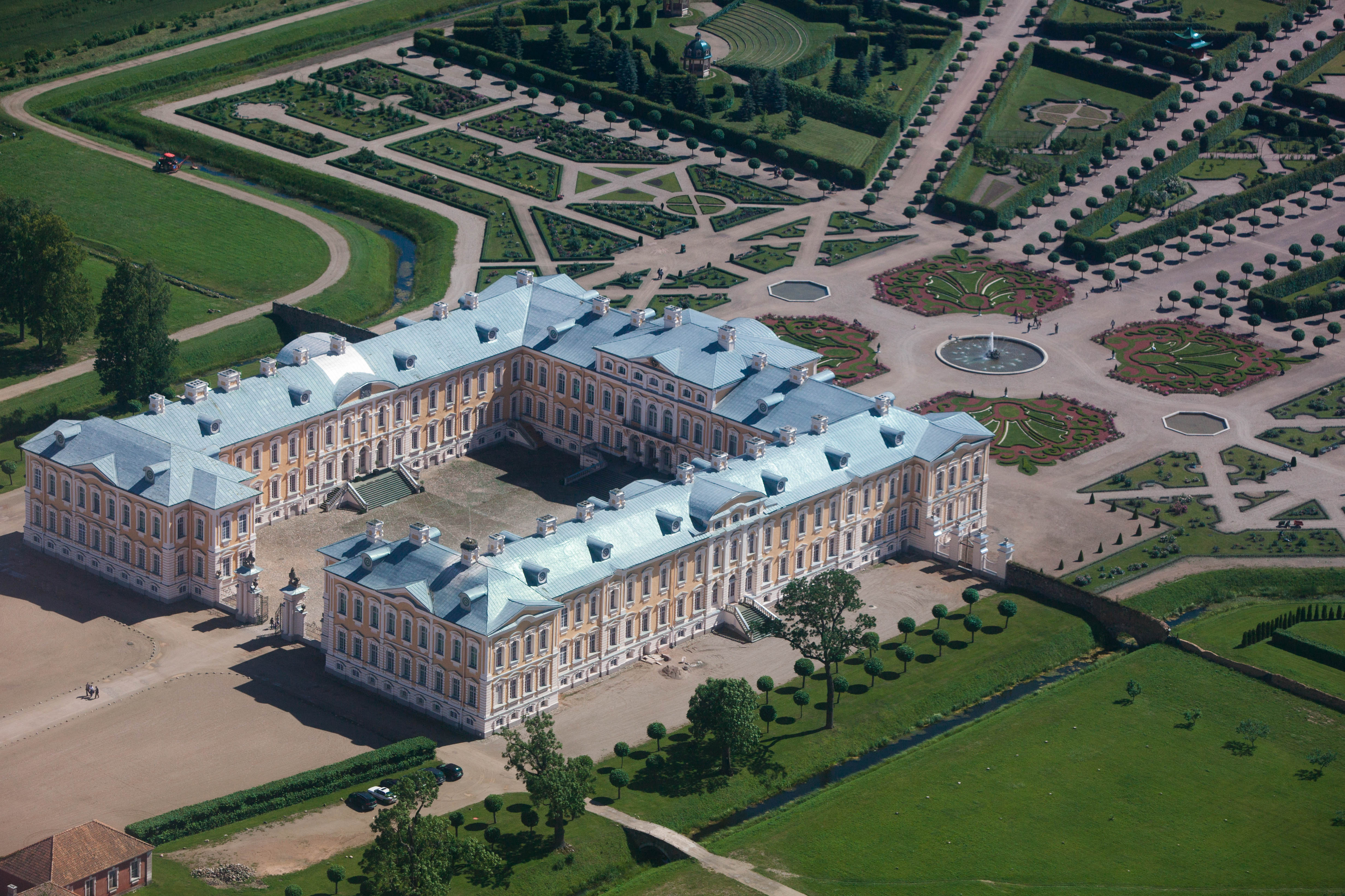 Rundale palace, still the most beautiful in the world. Latvia